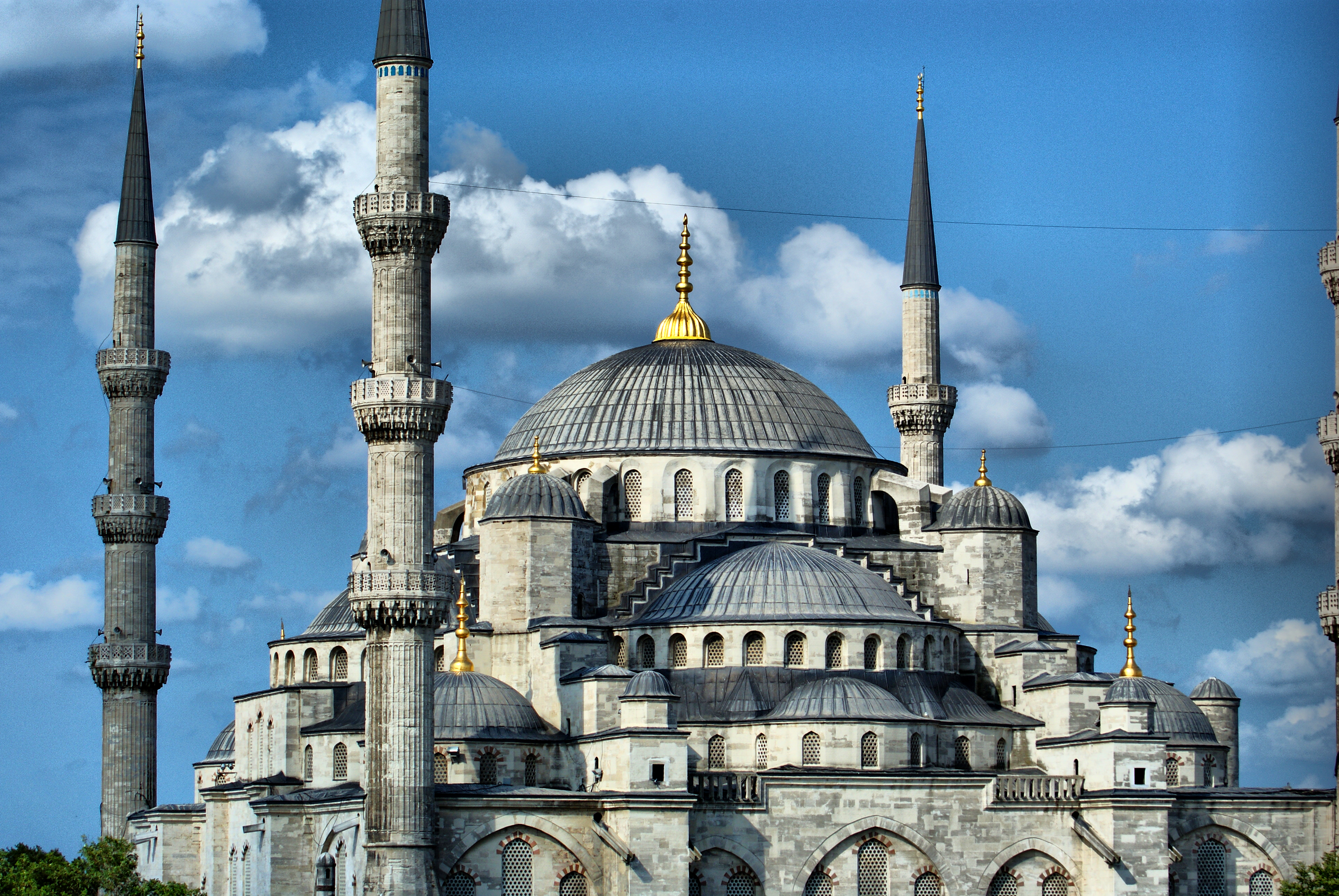 Exterior of Sultan Ahmed I Mosque, Istanbul, Turkey.